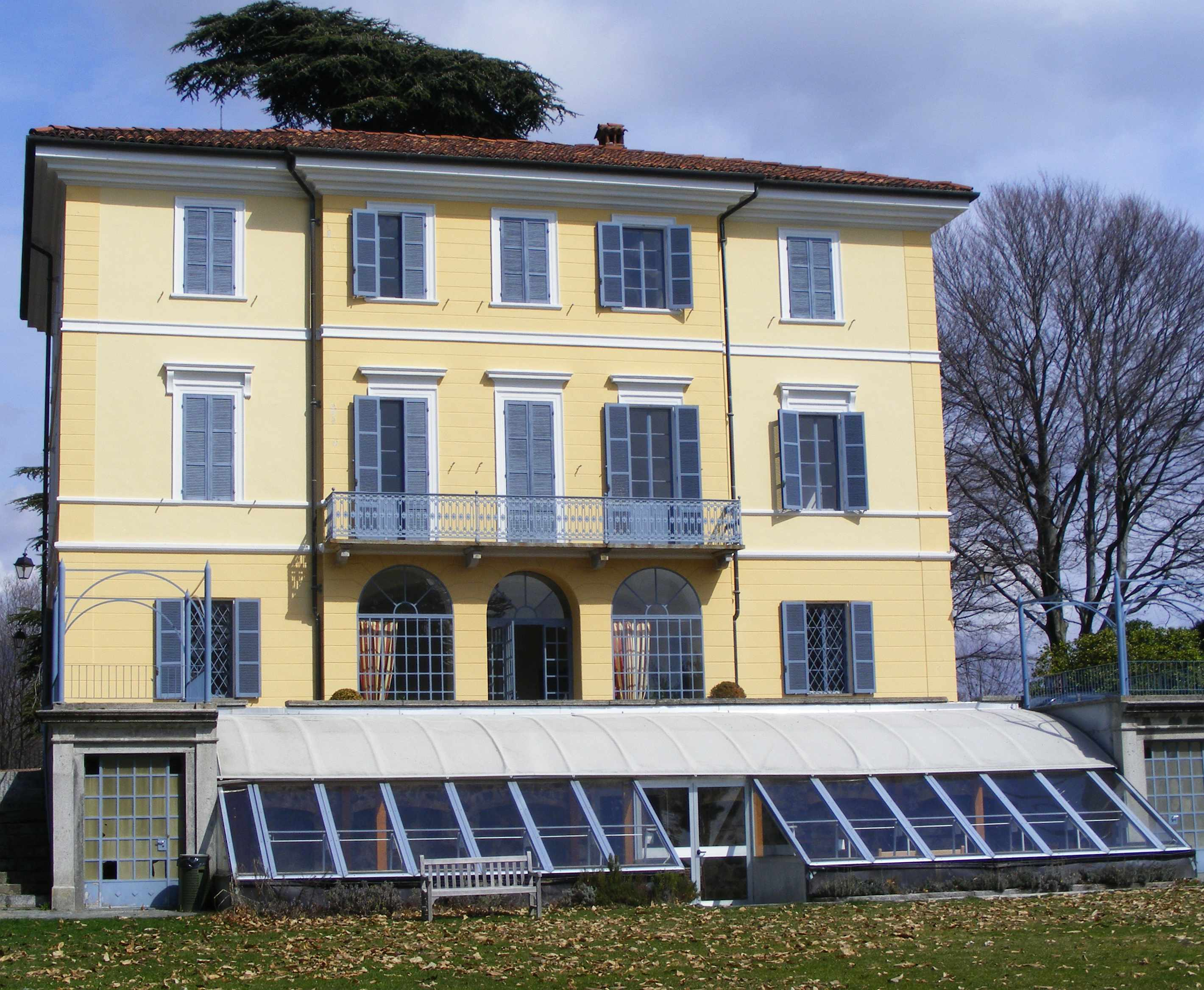 Pettinengo (BI, Italy): Villa Bellia.